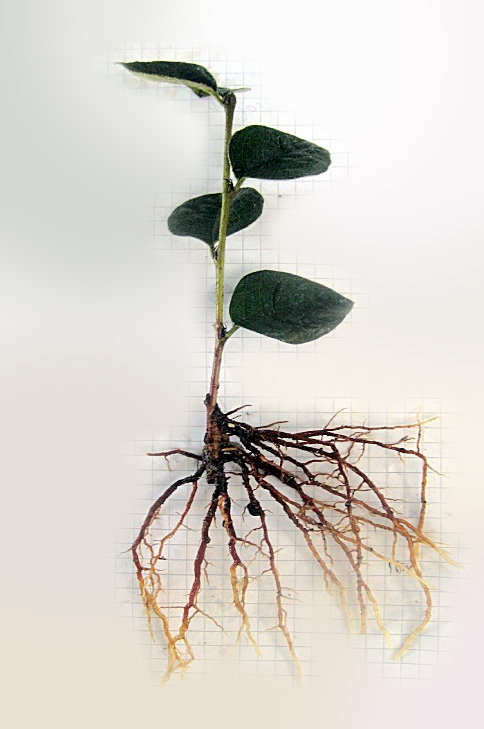 Cotoneaster multiflorus rooted green cutting